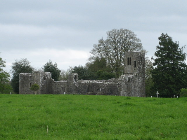 Ruined Church. It's shown on the OS map as "Church". A signpost nearby points to "Rathmore Church and Cross".